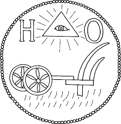 Heřmanice - seal